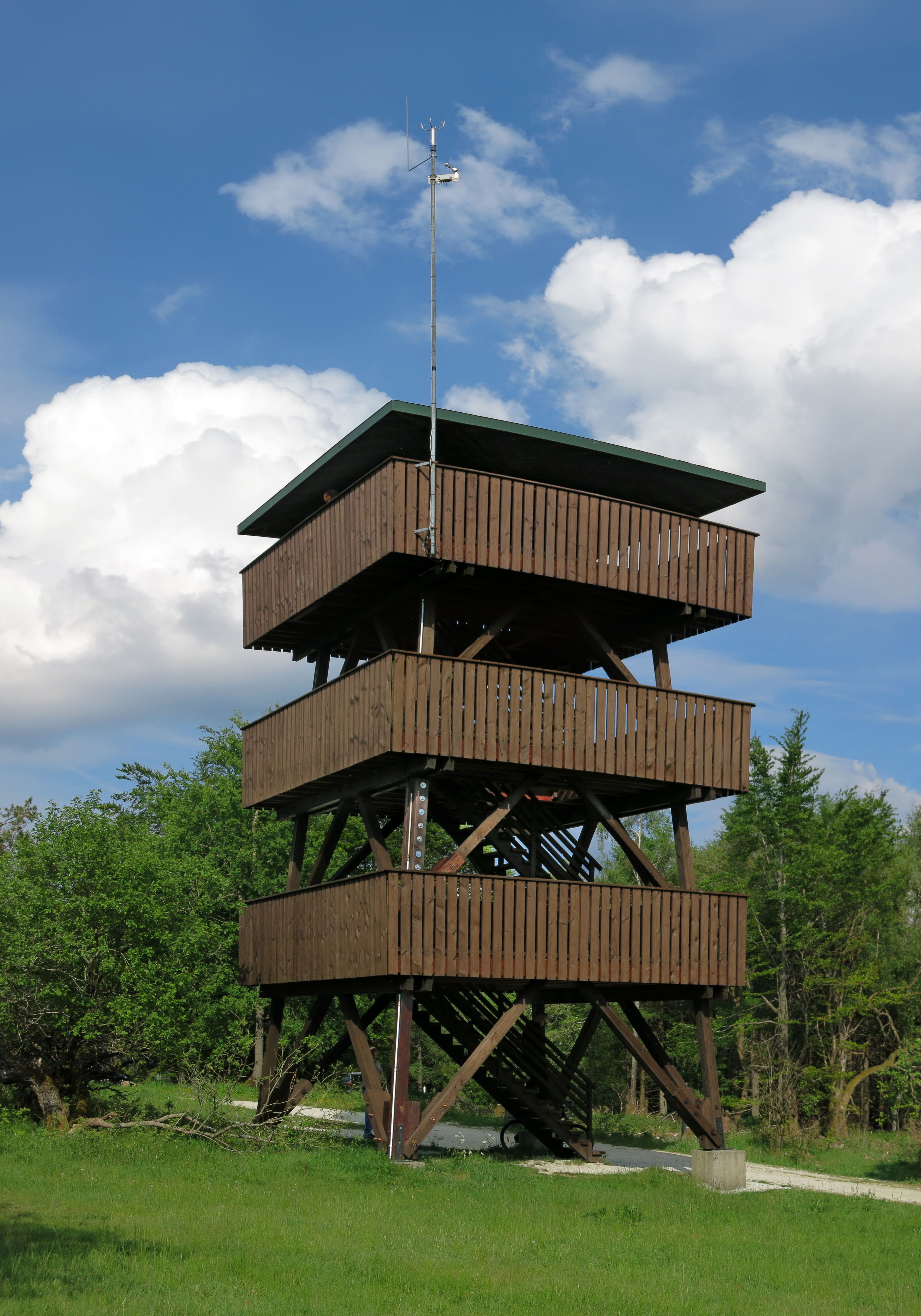 Lookout-tower on Erbeskopf